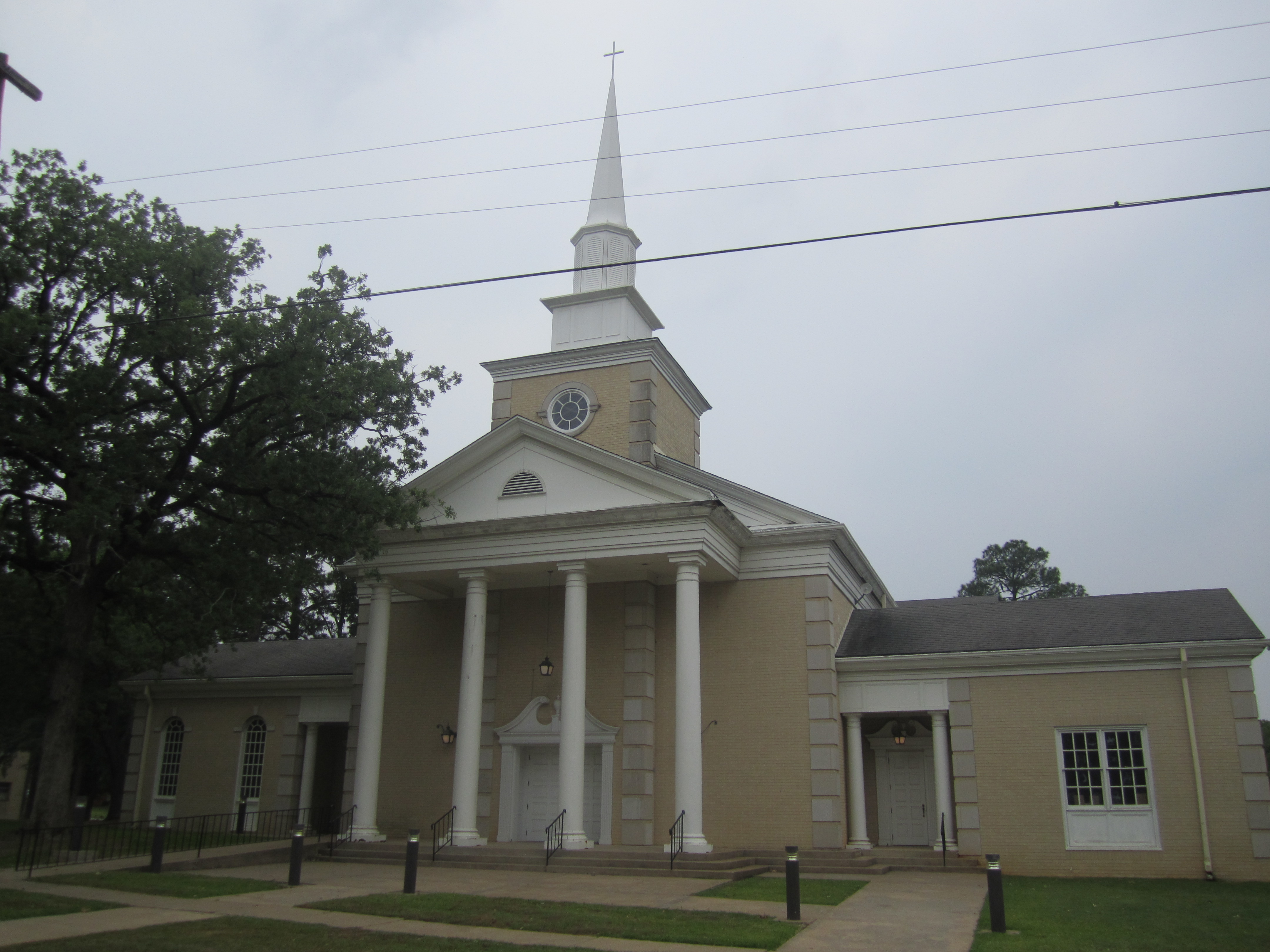 I took photo with Canon camera in Jacksonville, TX.